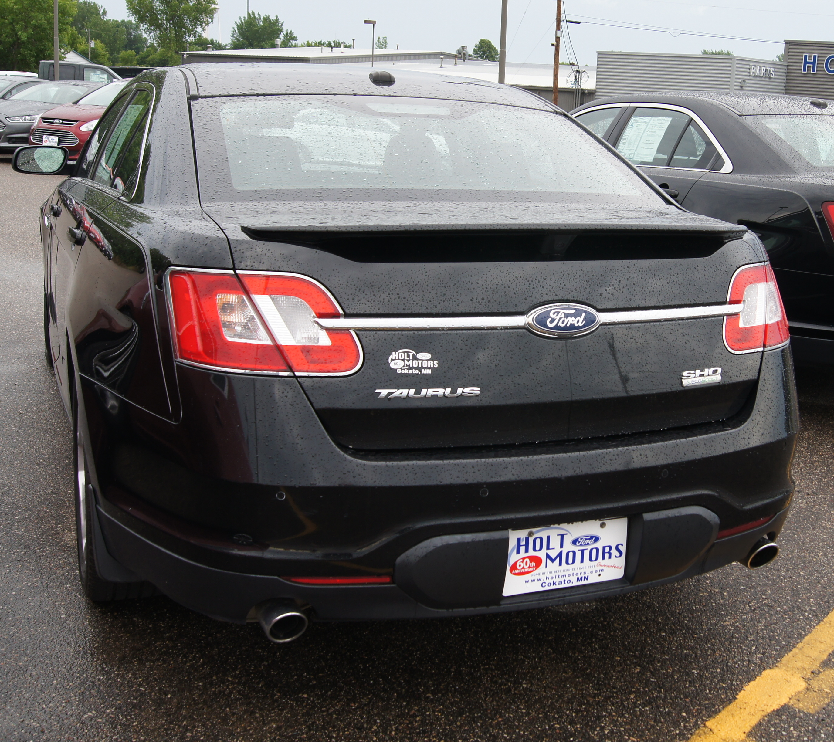 I bought my 2005 Dodge Magnum RT from Walser Chrysler Dodge in Hopkins. It came with free oil changes for life. I used to have relatives near the dealership that I would visit. They have all moved away, so now I just try to coordinate some car spotting for the trip. More Car Pictures